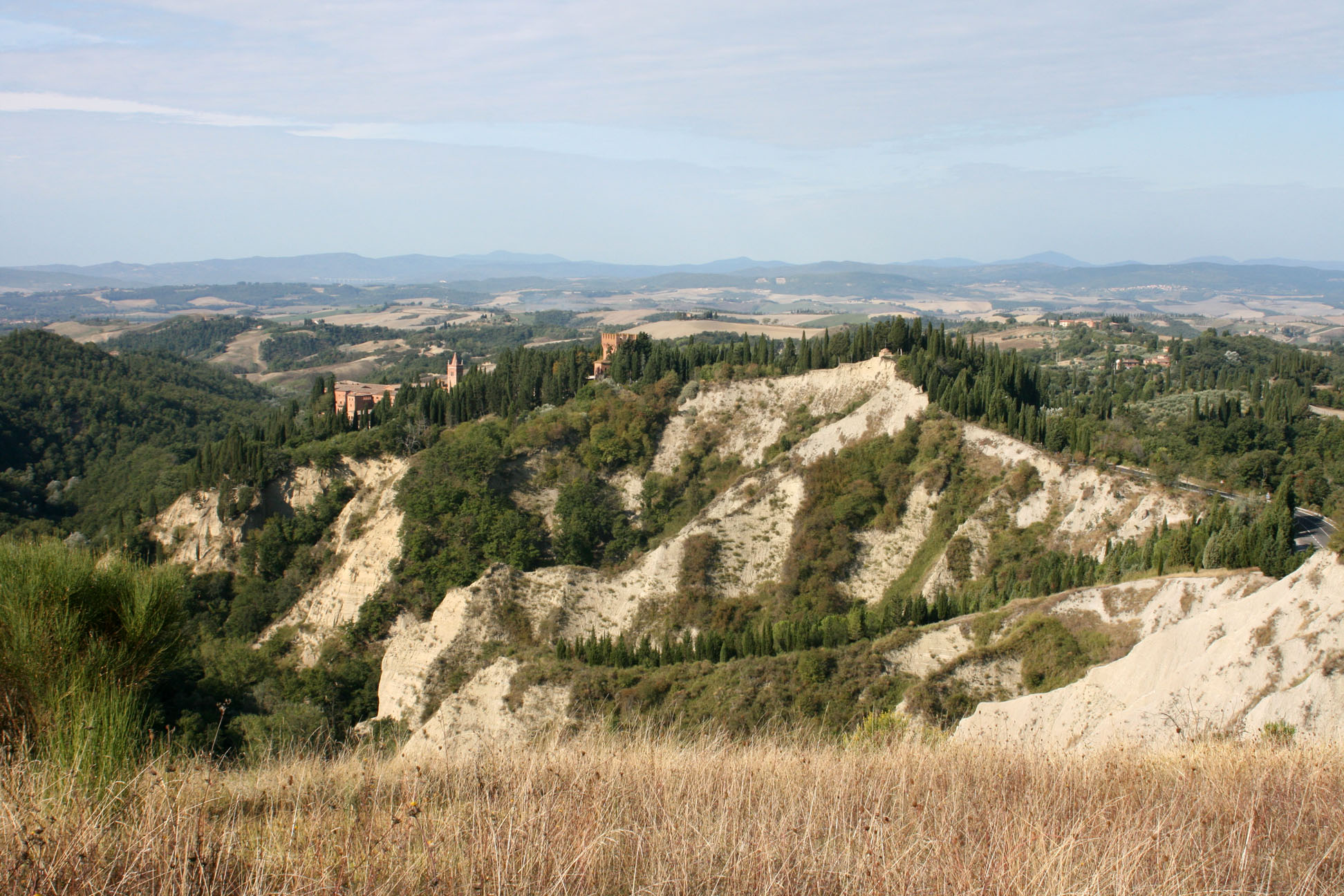 Crete Senesi (Italy: Tuscany): Calanchi in the badlands of Accona Desert